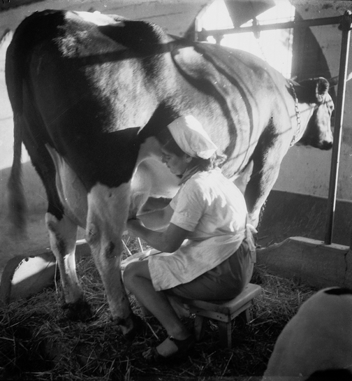 Wet training